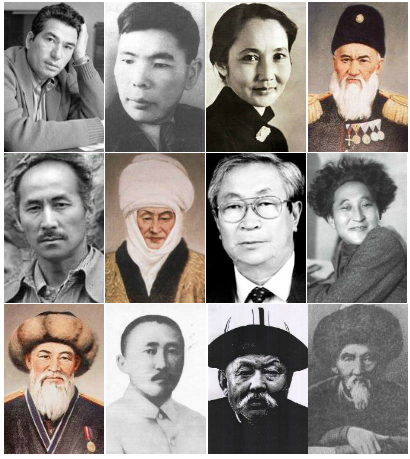 1st row: Chingiz Aitmatov, Alykul Osmonov, Bubusara Beyshenalieva, Shabdan Baatyr, 2nd row: Suymenkul Chokmorov, Kurmanjan Datka, Tolomush Okeyev, Bokonbayev 3rd row, Baytik baatyr, Kasym Tynystanov, Sayakbay Karalaev, Togolok Moldo